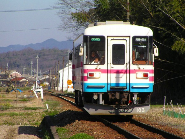 Miki Rail-Bus train.